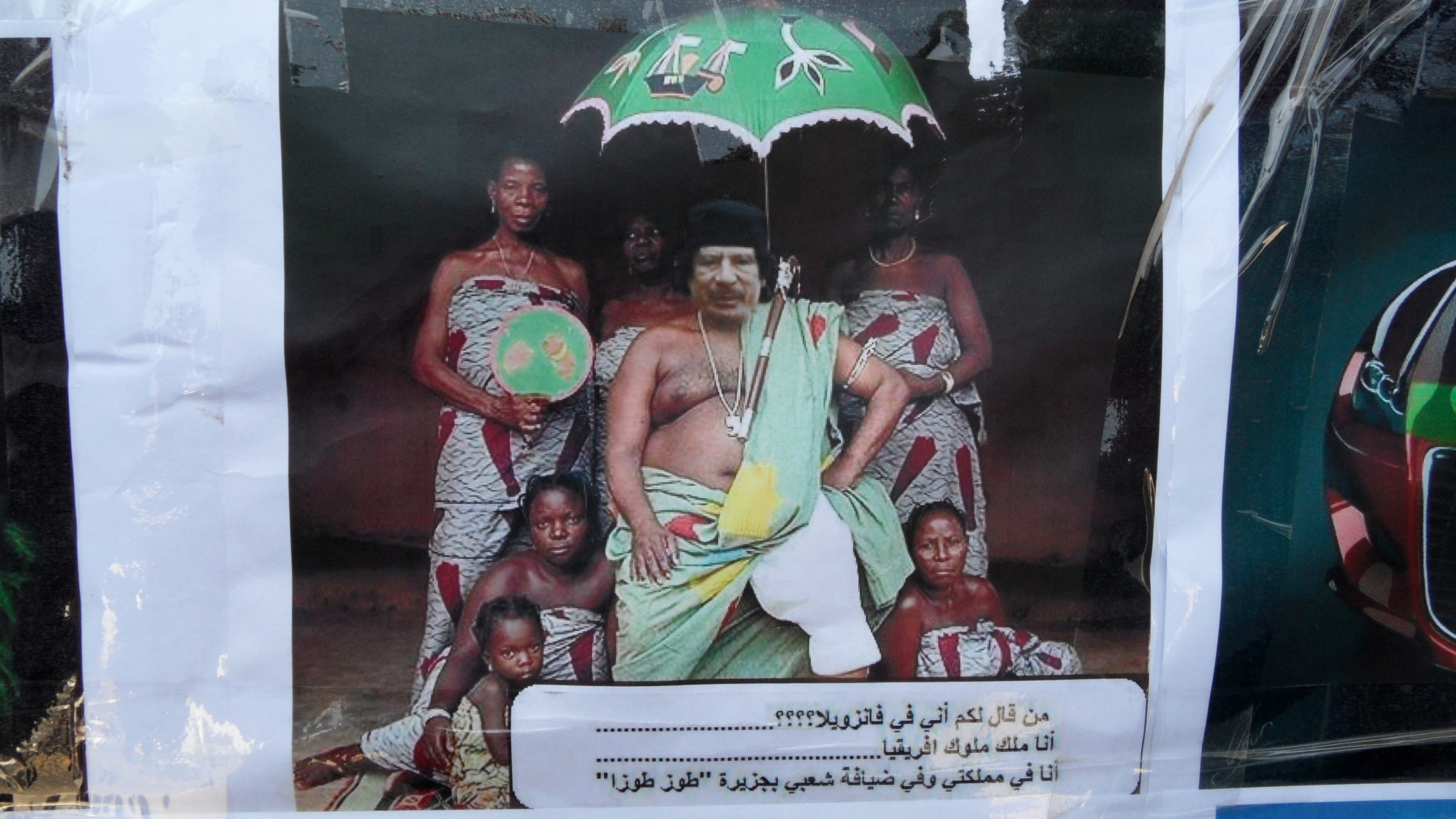 Photo taken by Jill Dougherty